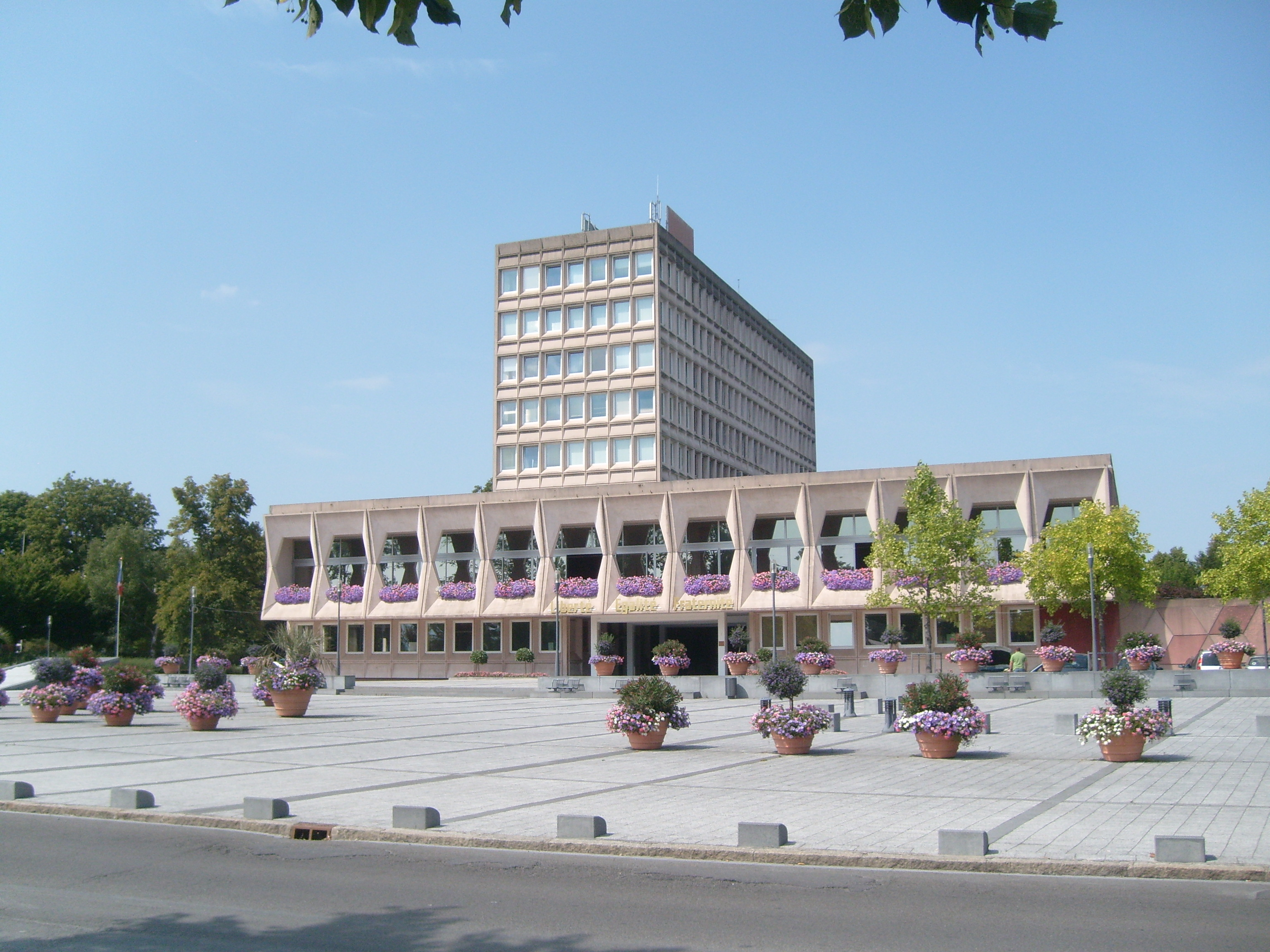 Maubeuge town hall